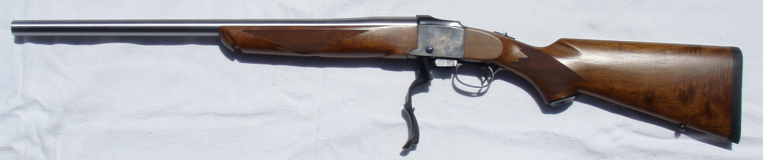 Ruger No. 1 single-shot rifle with custom .243 barrel with action open (left side)